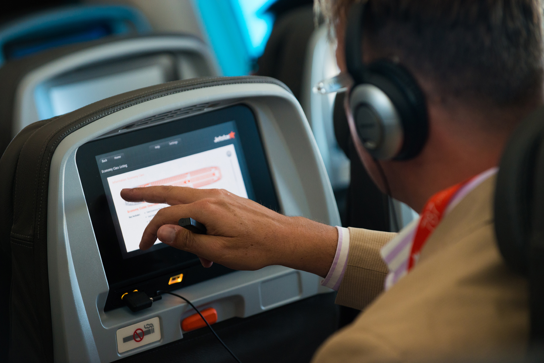 Seat back inflight entertainment systems in economy class on Jetstar's Boeing 787